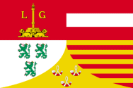 Flag of the Belgian province Liege.